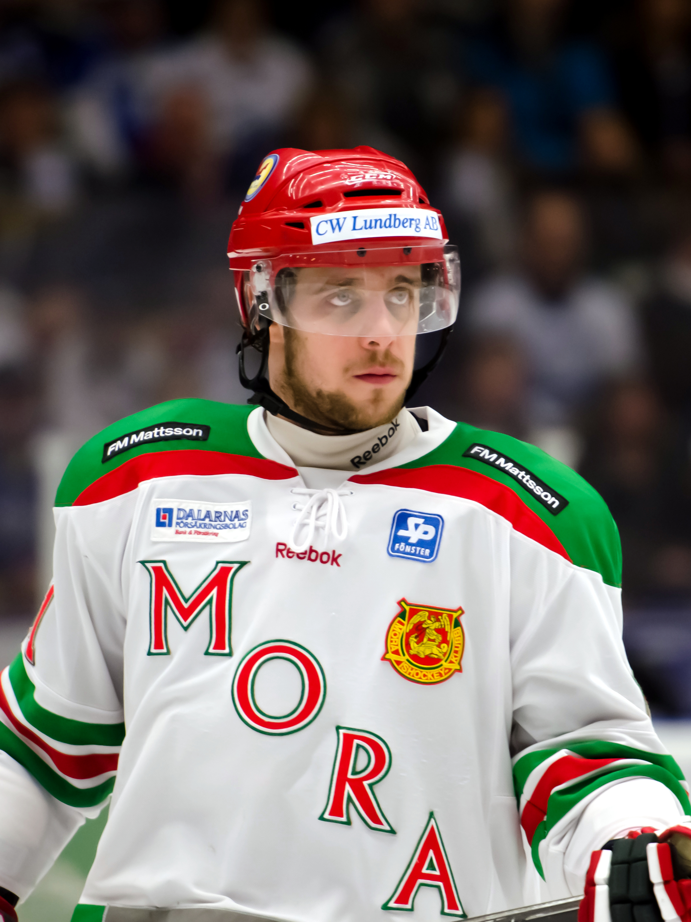 Anže Kopitar playing for Mora IK in Hockeyallsvenskan (Swedish second league) against Leksands IF 2012-12-29.